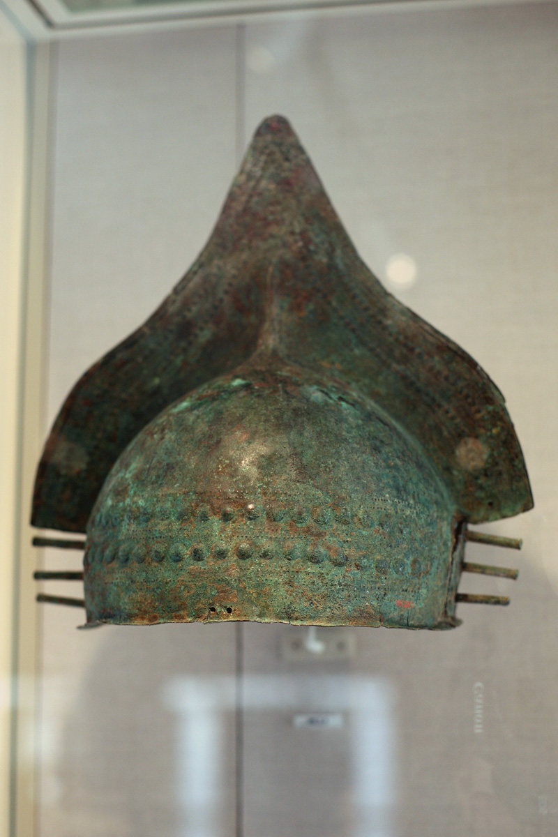 Villanovan (Etruscan) bronze helmet, Geometric period, 9th century B.C., 12 5/8 x 12 1/2in. (32.1 x 31.8cm), Metropolitan Museum of Art, Rogers Fund, 1908, # 08.2.5 Photographer: Katie Chao